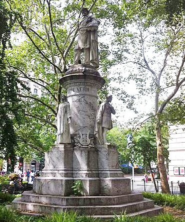 Sculpture in honor of composer Giuseppe Verdi, by Pasquale Civiletti, located in Verdi Square Park in Manhattan, New York City. Verdi Square Park is located at the intersection of West 73rd Street and Broadway in Manhattan.